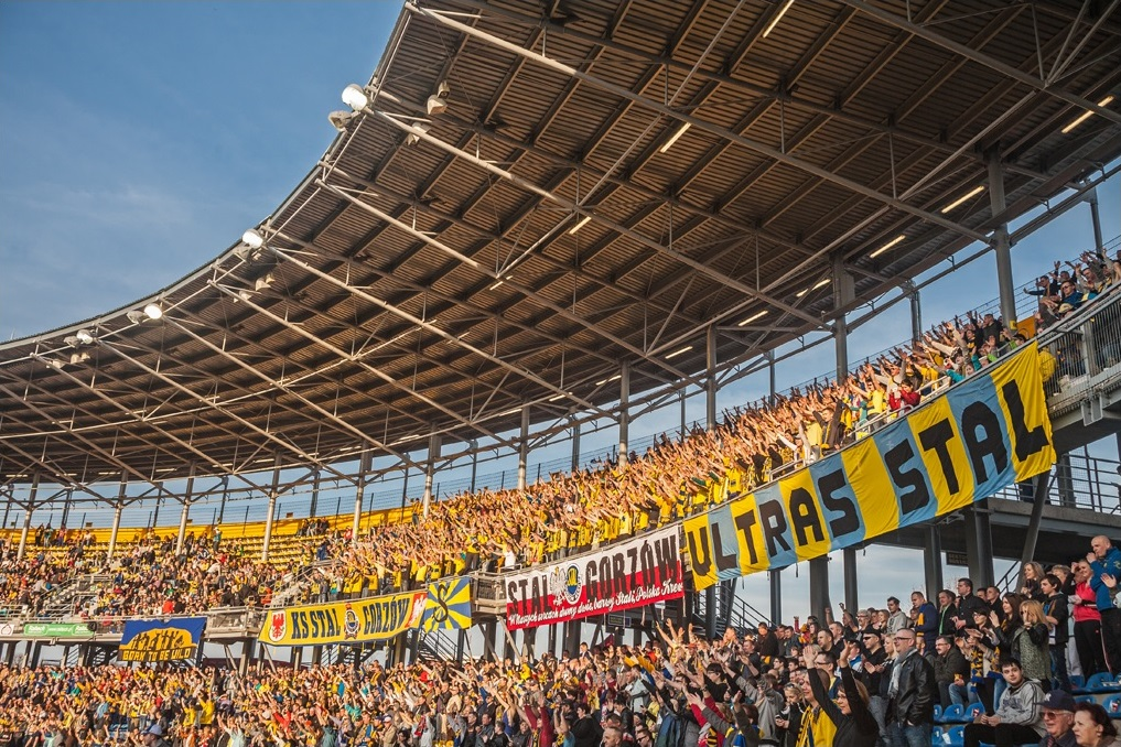 Stal Gorzow Fans in season 2013.